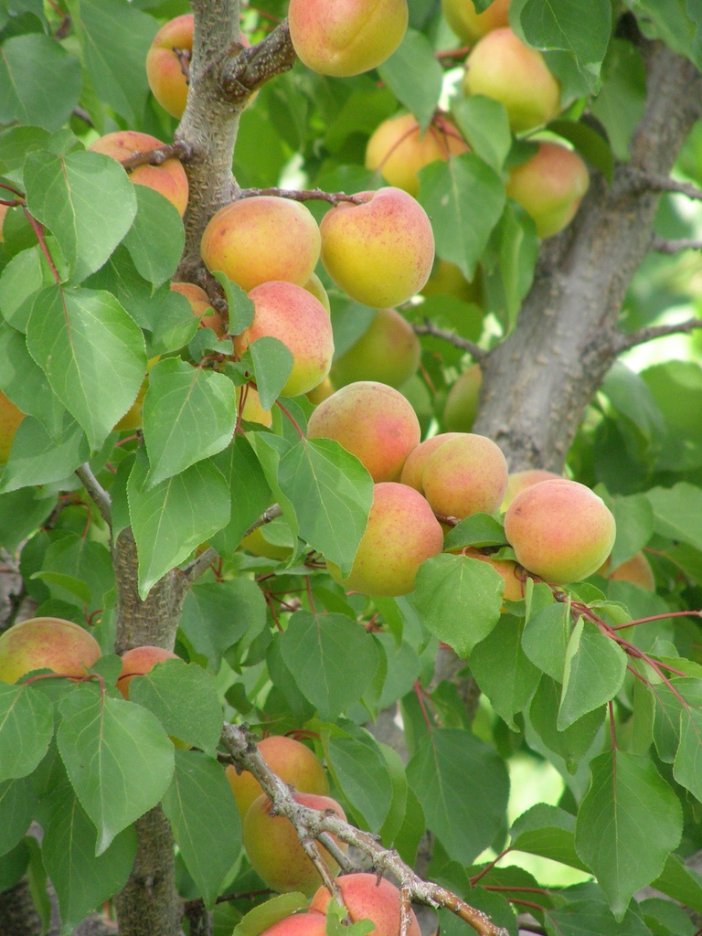 In an orchard near the south shore of Lake Issyk Kul.